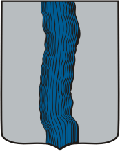 Tarusa (Kaluga oblast), coat of arms (1777)